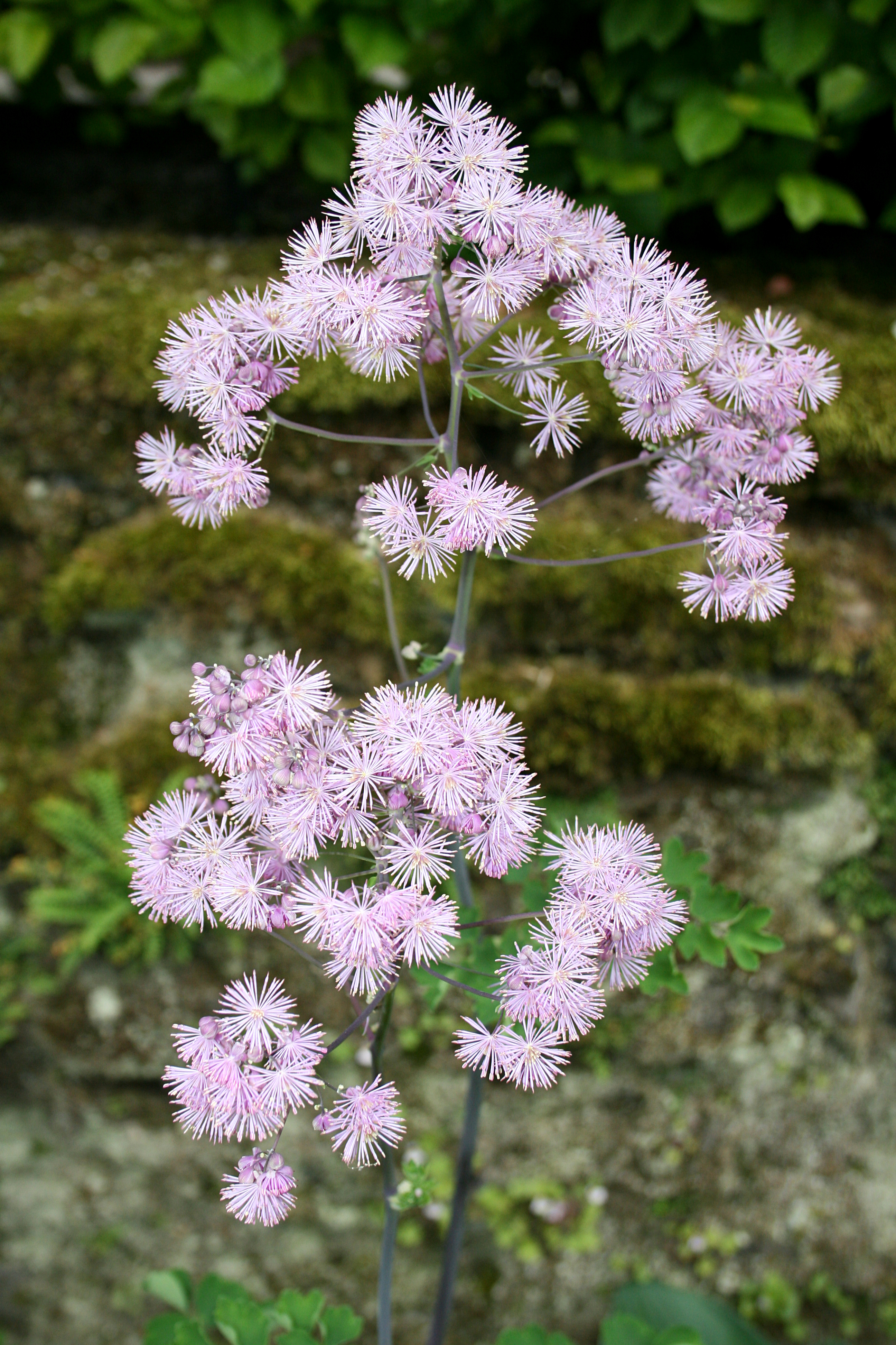 Columbine meadow-rue